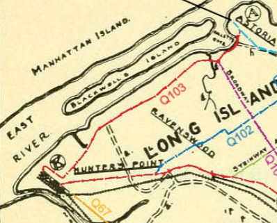 Detail of NYC's East River, showing Roosevelt Island (then Blackwell Island), the mouth of Newtown Creek, and the Anable Basin.